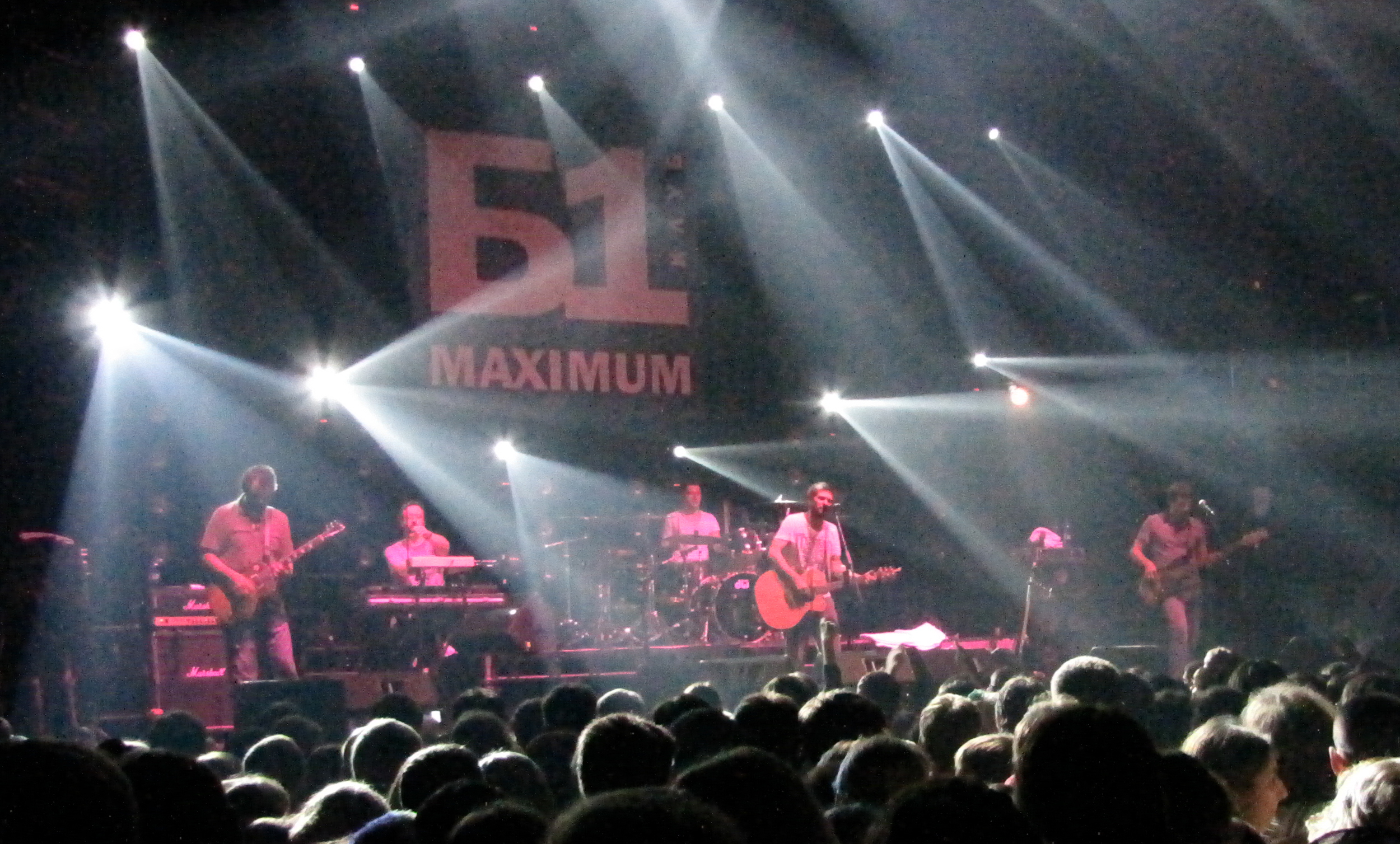 Splean/Сплин at B1 Maximum Klub in Moscow.